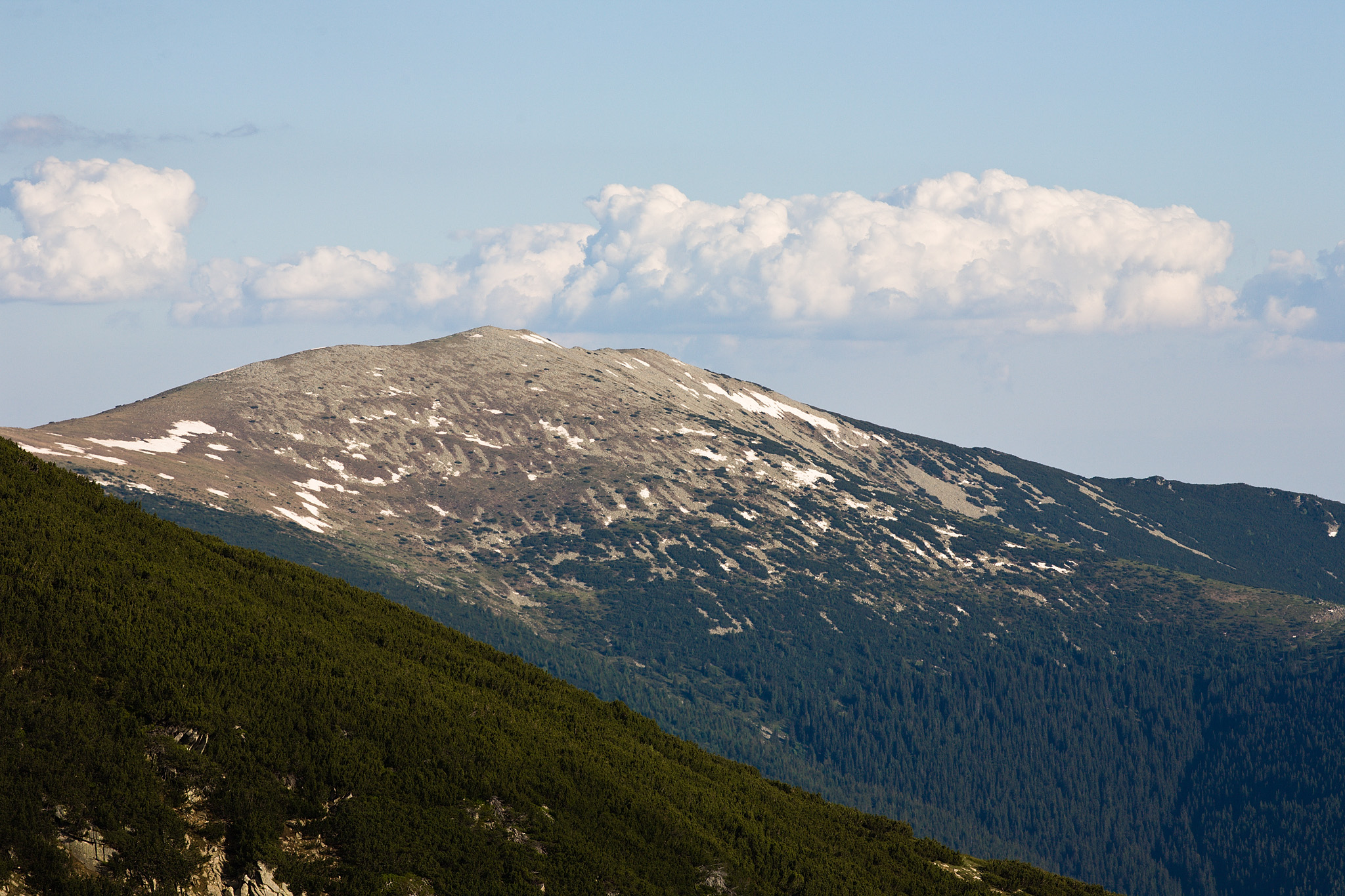 Kelyo - a summit in Pirin mountains, Bulgaria